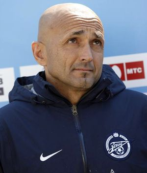 Luciano Spalletti